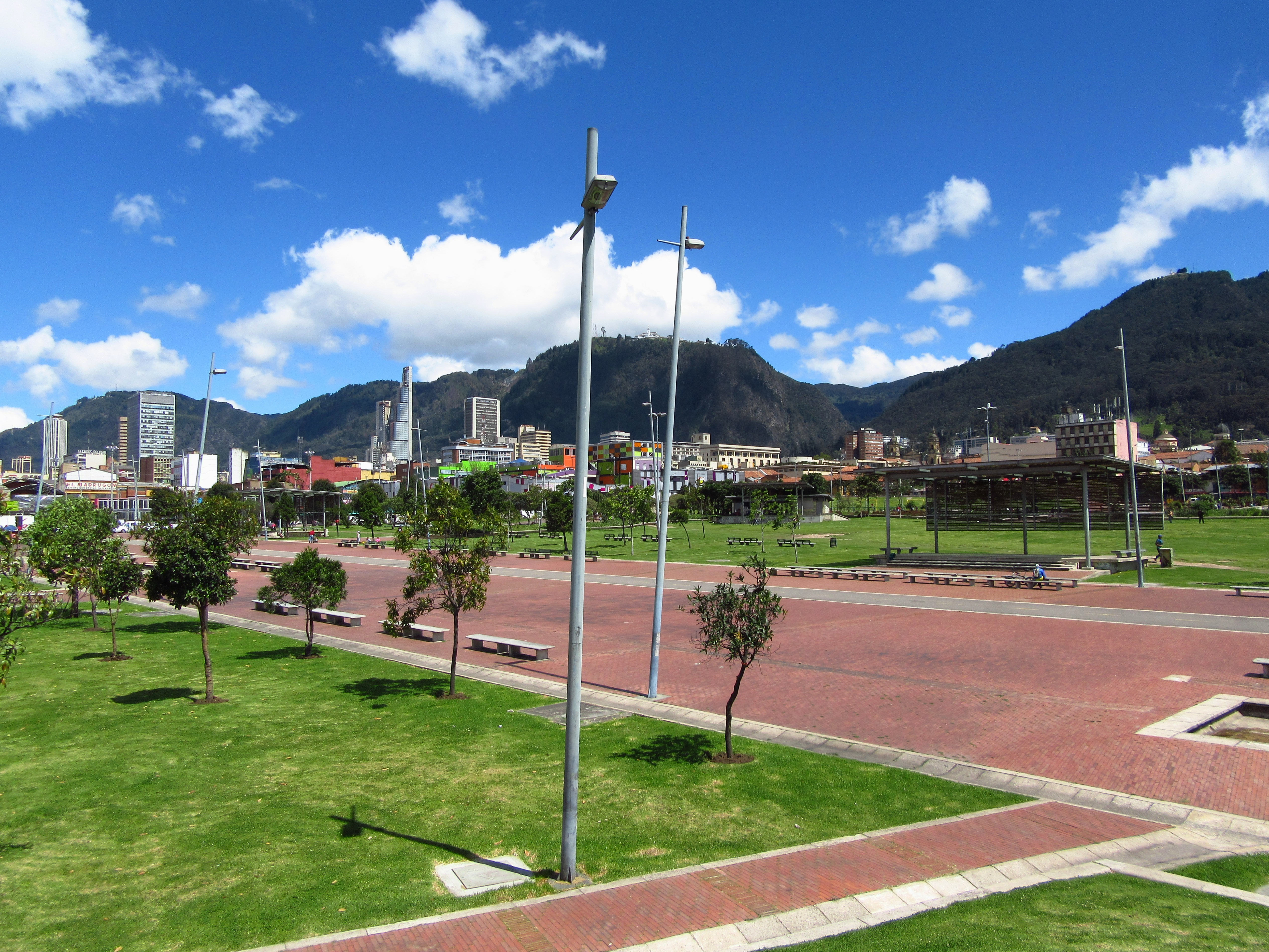 Bogotá